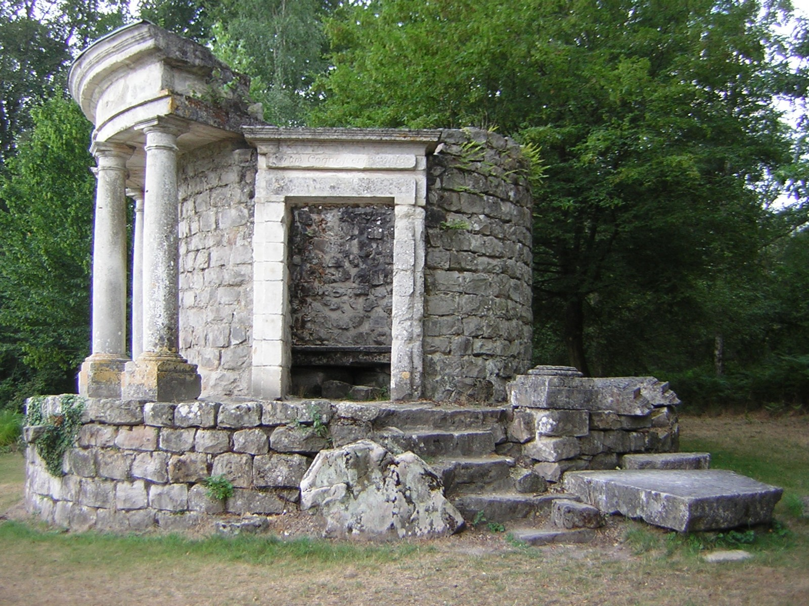 The Temple of Modern Philosophy in the Jean-Jacques Rousseau Park, at Ermenonville (Oise, France). This folly is part of the park that the marquis René Louis de Girardin begun to create in 1765. This building was left unfinished on purpose, symbolizing that knowledge would never be complete and that philosophy will progress.